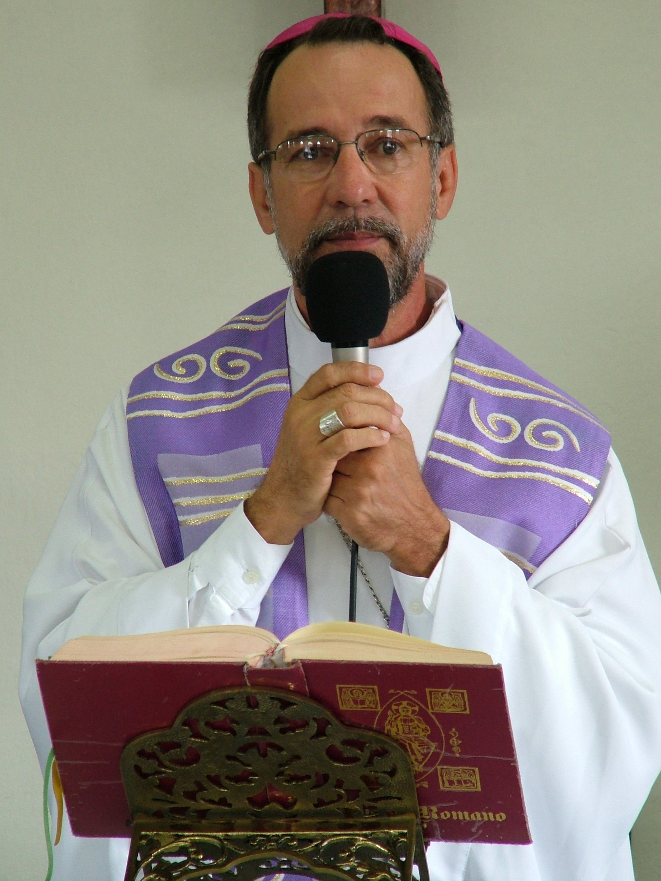 Dom Esmeraldo Barreto de Farias, bishop of Santarém (Pará), Brazil.